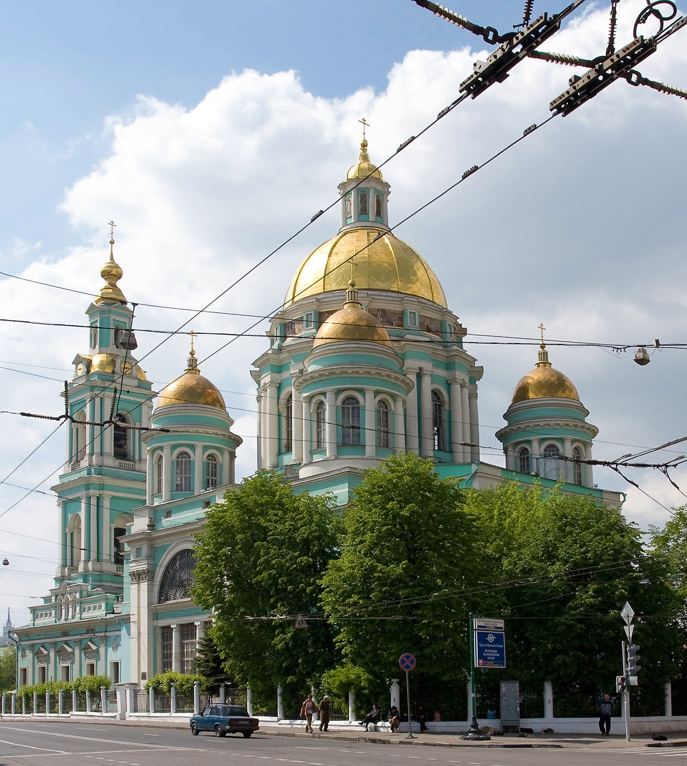 Bogoyavlensky Cathedral (Cathedral of the Epiphany in Yelokhovo), Moscow, Russia